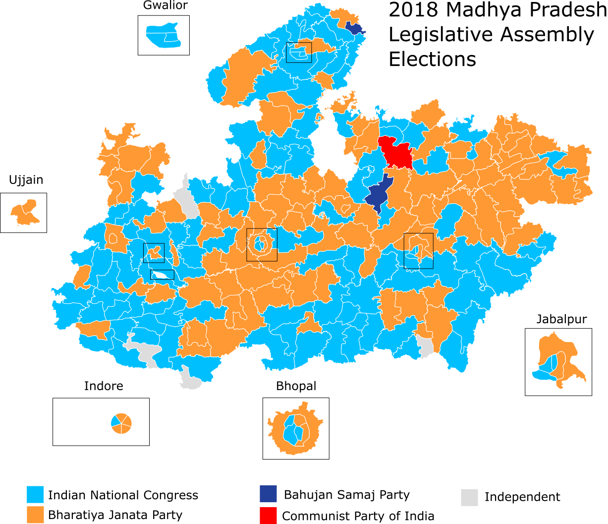 Map showing constituencies won by parties